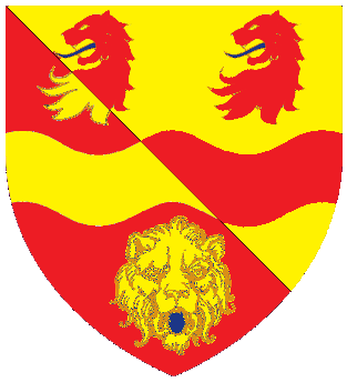 Shield of arms of The Lord Denning